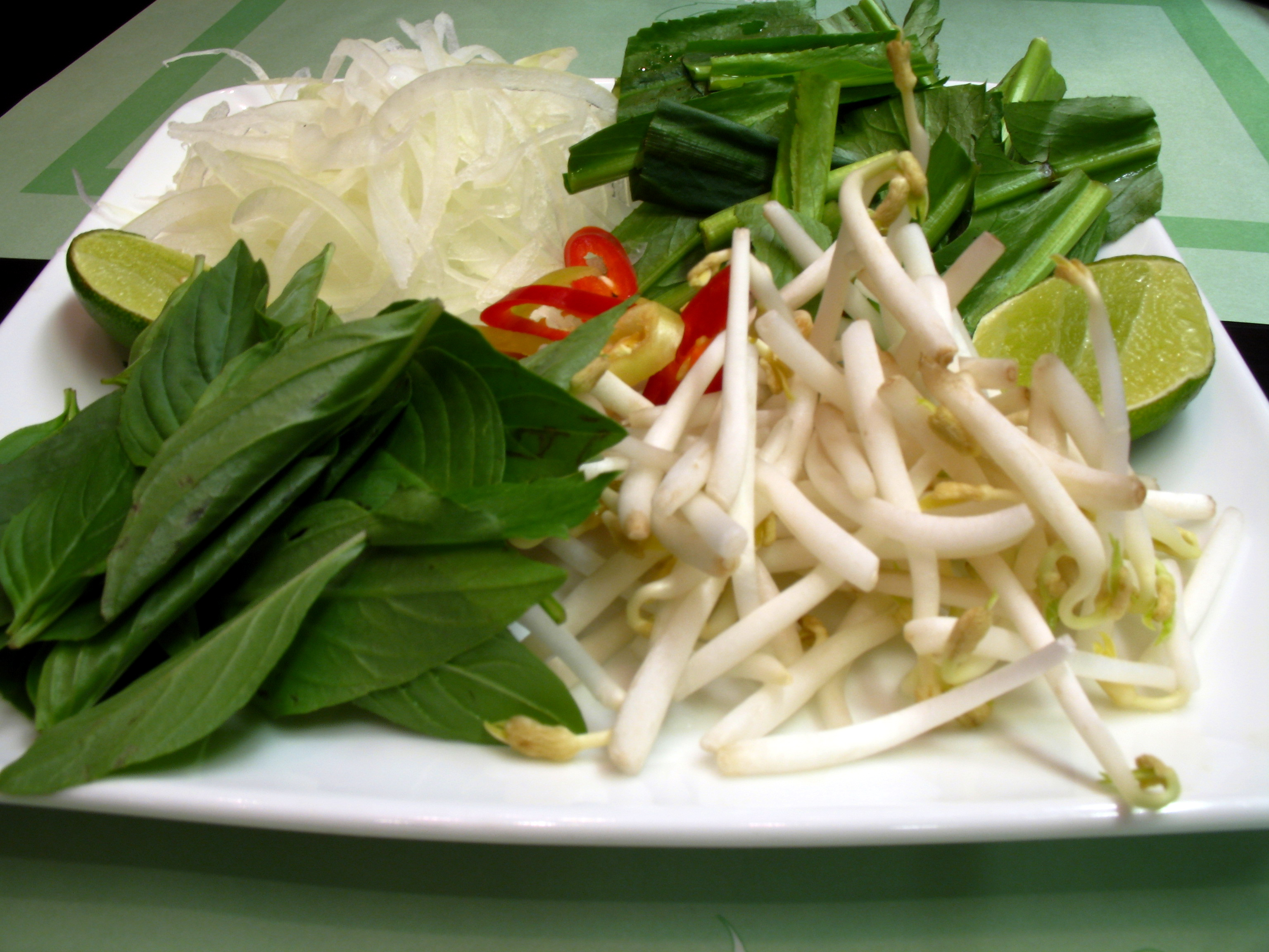 Pho ingredients...toppings...phoppings? Be careful of not accidentally putting three chillies on your tongue and then chewing. It hurts.